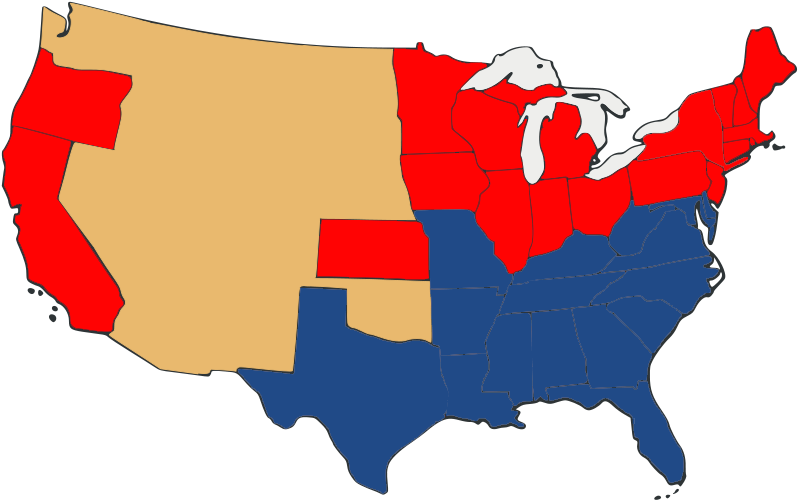 Free and Slave States in the period leading to the American Civil War. Free states are red, slave states in blue. Territories are a neutral yellow. This map tries to remove any biased thoughts that may be the outcome from the use of red and blue and their associates with the Republican and Democratic parties.